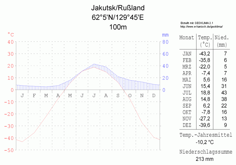 climate chart in the format by Walther and Lieth, metric, °Celsisus and millimeters, made with Geoklima 2.1